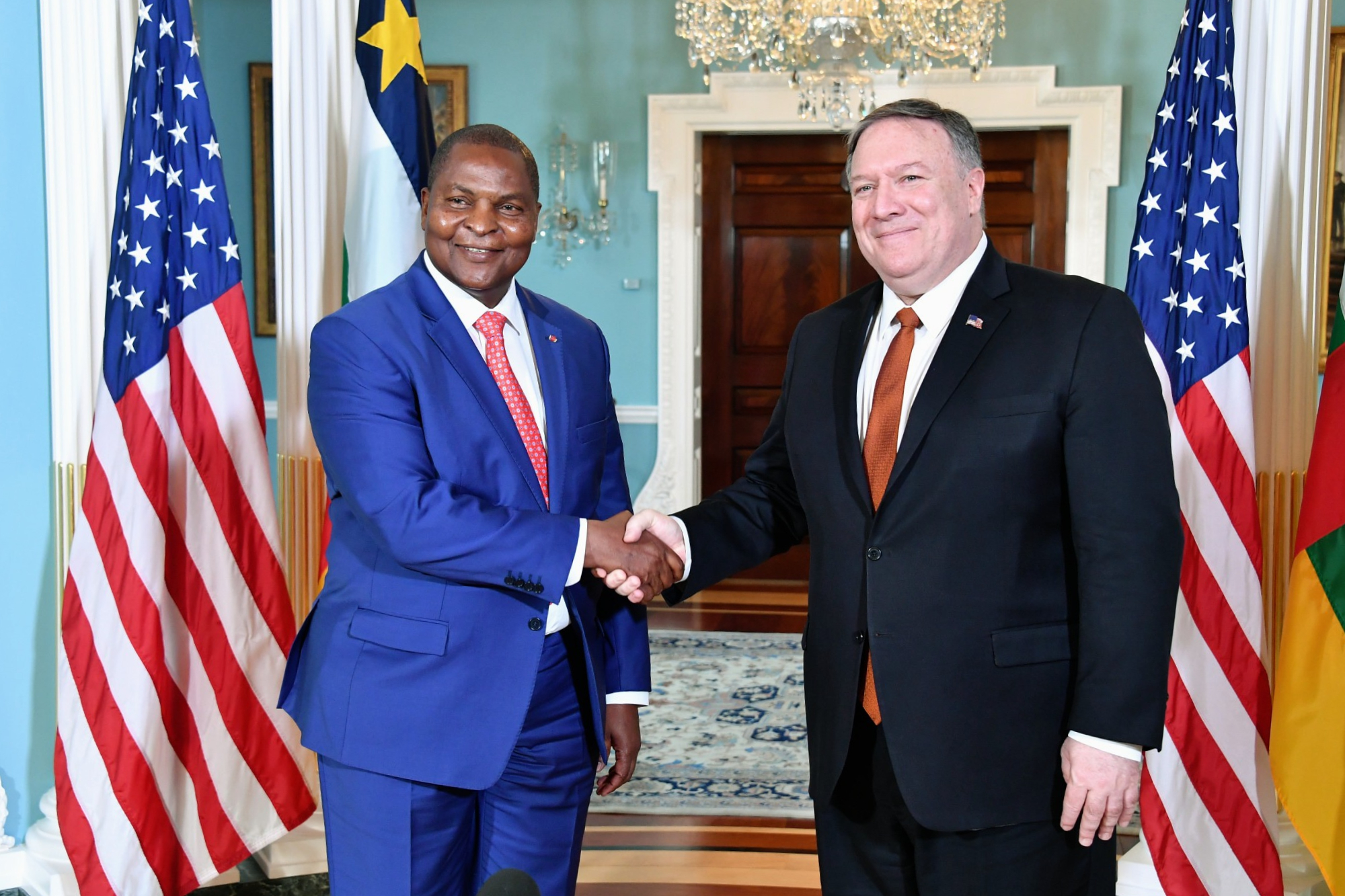 Secretary Michael R. Pompeo met with Central African Republic President Faustin-Archange Touadera at the U.S. Department of State in Washington, D.C., on April 11, 2019. [State Department photo by Michael Gross/ Public Domain]